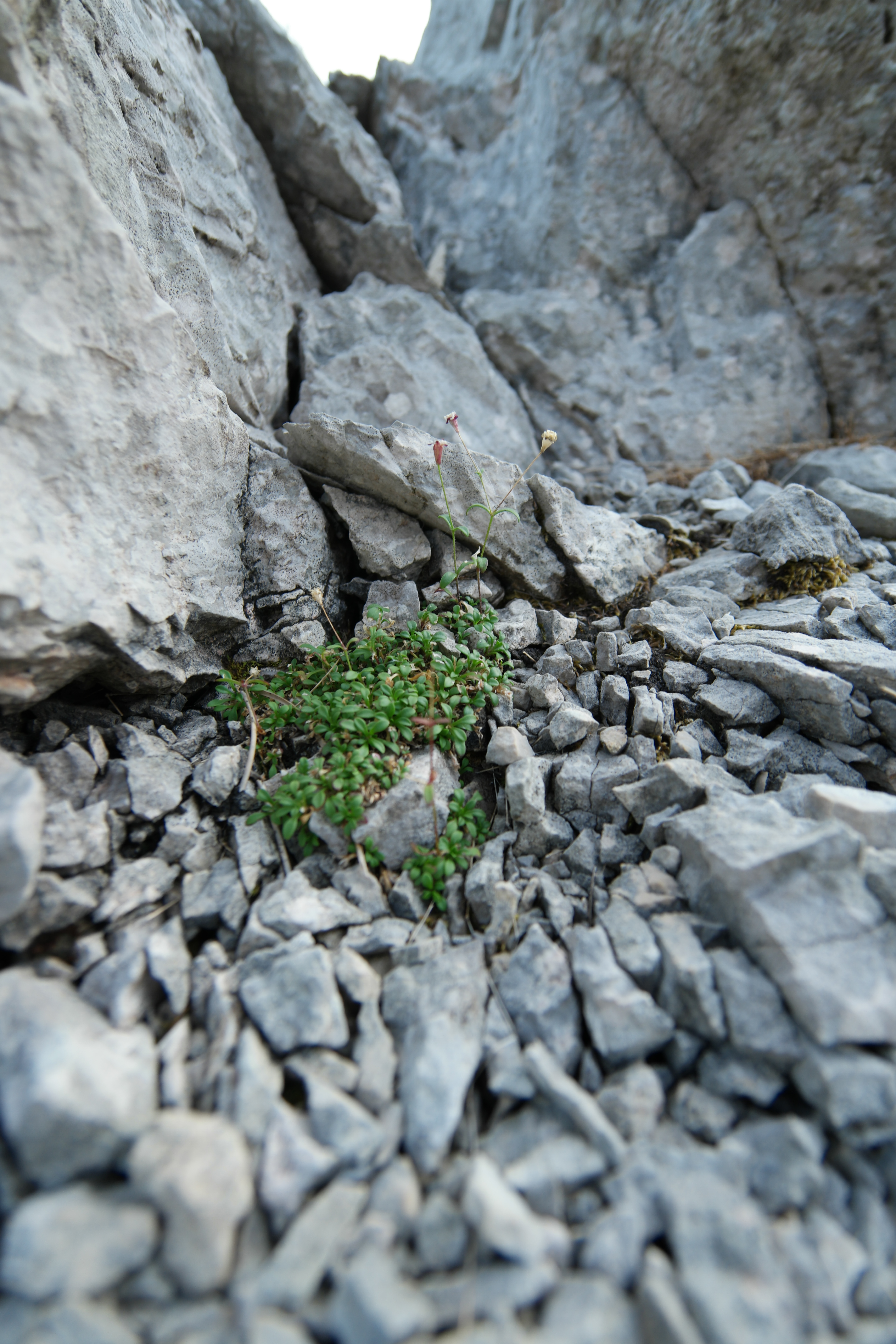 Heliosperma pusillum ssp. monachorum leg P.Cikovac Opuvani do Velika Jastrebica